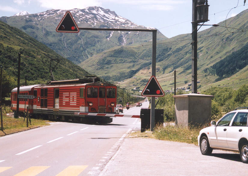 A train of the Furka-Oberalp line at the Hauptstrasse, coming from Realp and heading down to Andermatt.